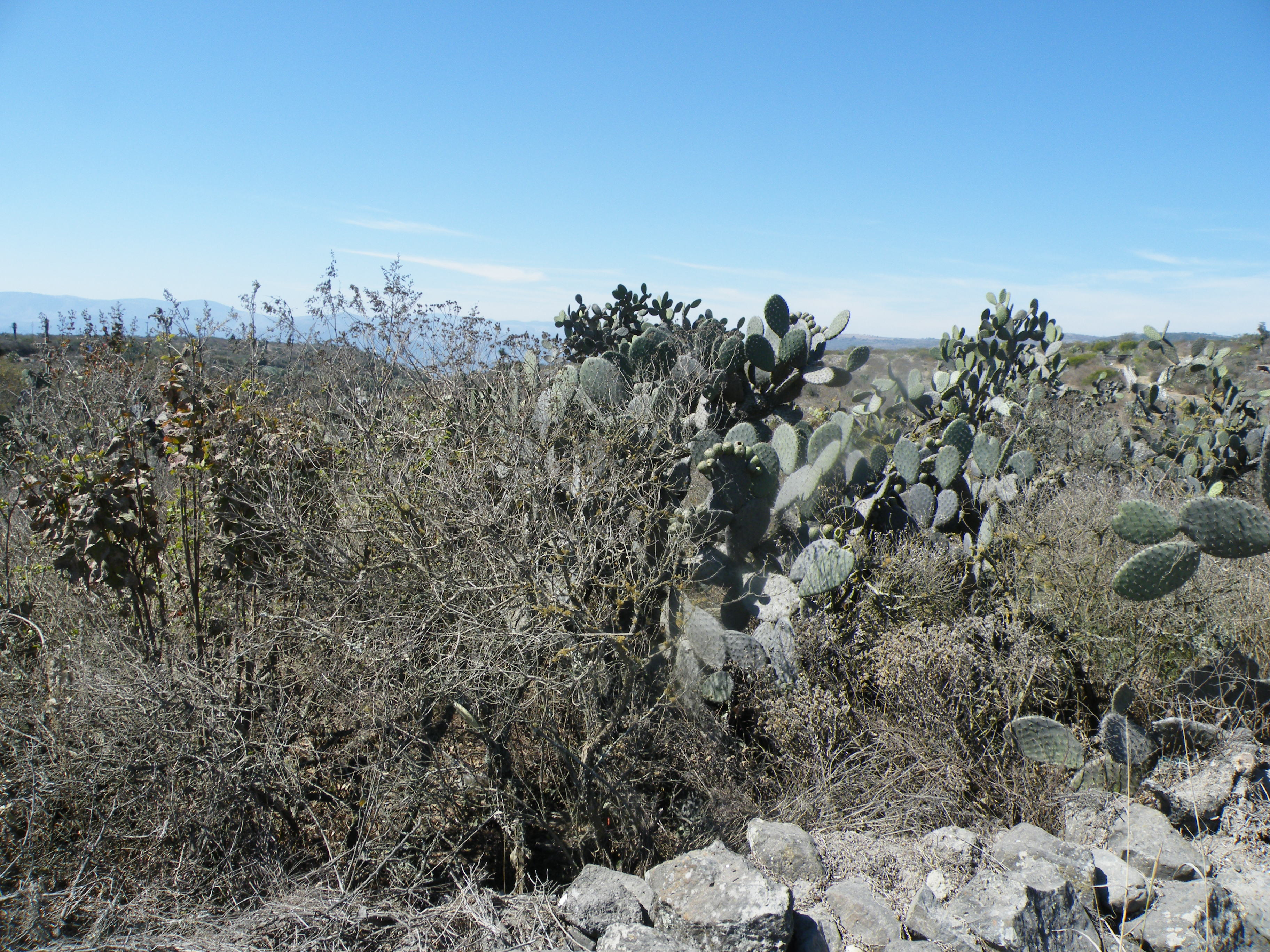 Turn off to Yerba Buena, Hidalgo